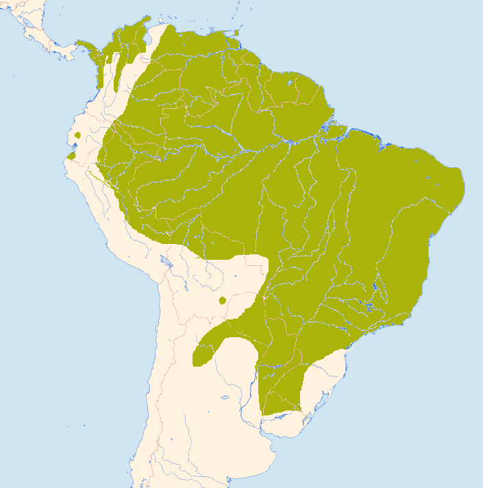 Crotophaga major - distribution map